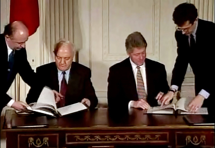 Eduard Shevardnadze, former Foreign Minister of the USSR and then President of Georgia, and President Clinton of the U.S. sign a treaty on bilateral relations and investment.